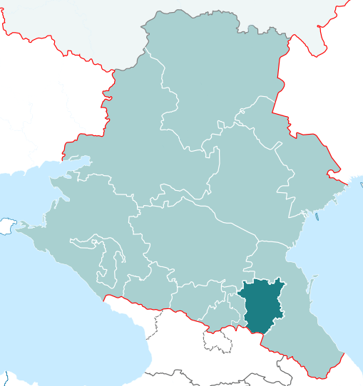 Locator map of Chechen Republic as part of former Southern Federal District before North Caucasian Federal District was split from it in 2010